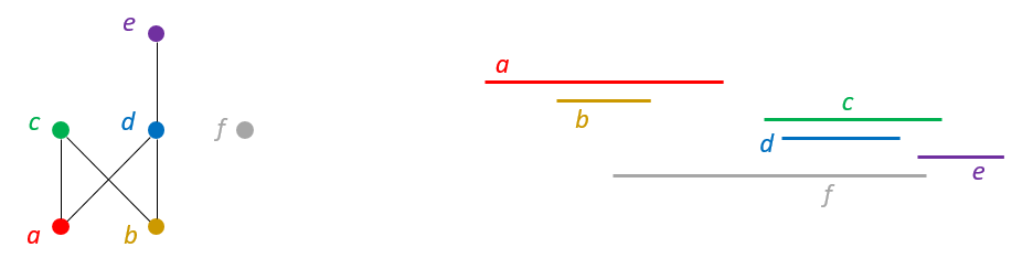 An example of an interval order that shows a Hasse diagram of a partial order on the set {a, b, c, d, e} alongside a collection of intervals that realizes that partial order.